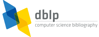 dblp logo since 2012. The logo consists of two stylized, half-opened books (blue representing the University of Trier and yellow representing Schloss Dagstuhl), and the text "dblp computer science bibliography"